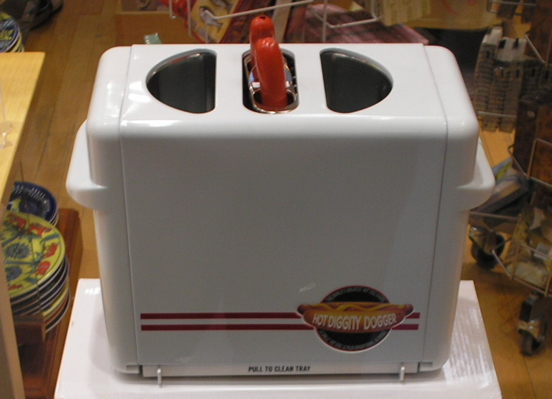 Grille-pain pour les pains de hot-dog qui rechauffe les saucisses en même temps. Photo prise au West Edmonton Mall, Edmonton, Alberta, Canada, le 16 août 2005. Toaster for hot dog buns that grills hot dogs at the same time. Photo taken at the West Edmonton Mall, Edmonton, Alberta, Canada, 16 August 2005.